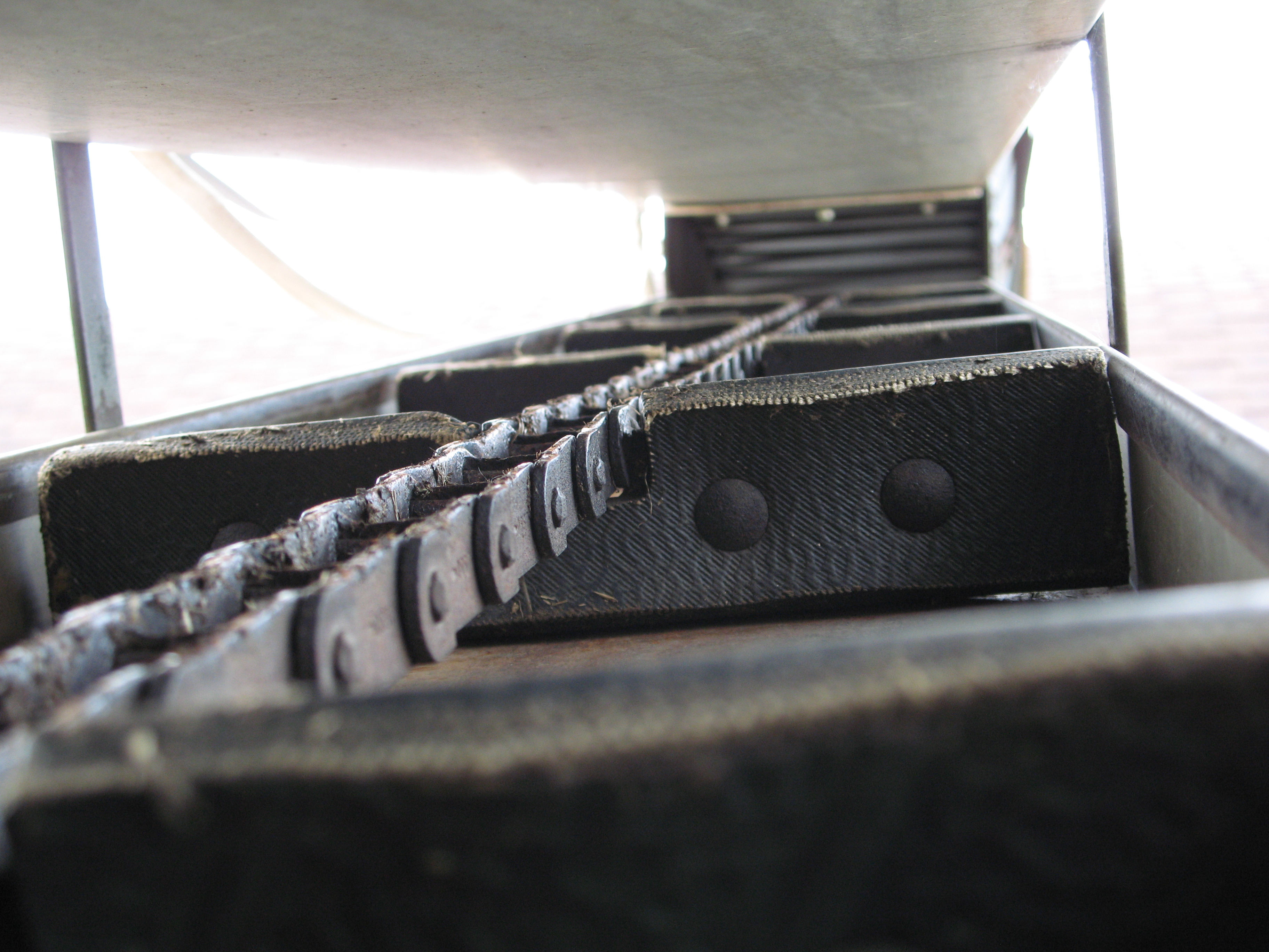 Interior view of the silage conveyor showing the paddles and drive chain. This is the return chain coming towards the silo. The upper paddles heading into the barn are covered by a steel shroud to protect the transported silage from wind and rain.